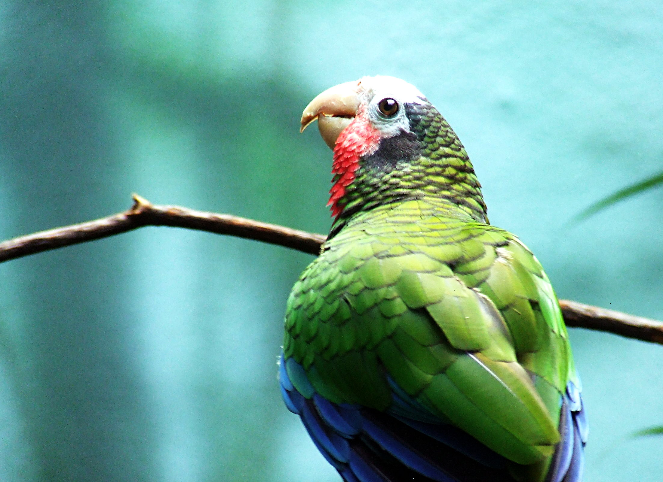 Cuban Amazon (also known as Cuban Parrot or the Rose-throated Parrot) at Bronx Zoo, New York, USA.